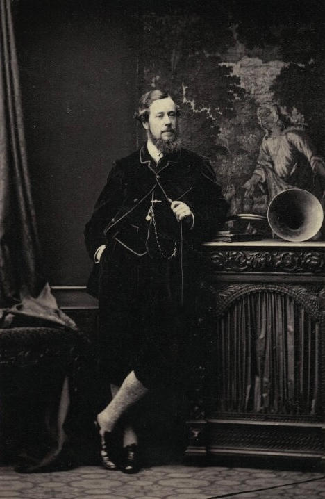 James Henry Robert Innes-Ker, 7th Duke of Roxburghe by Camille Silvy albumen carte-de-visite, approximately 1862 3 3/8 in. x 2 1/4 in. (86 mm x 56 mm) image size Purchased by National Portrait Gallery, London, in 1996